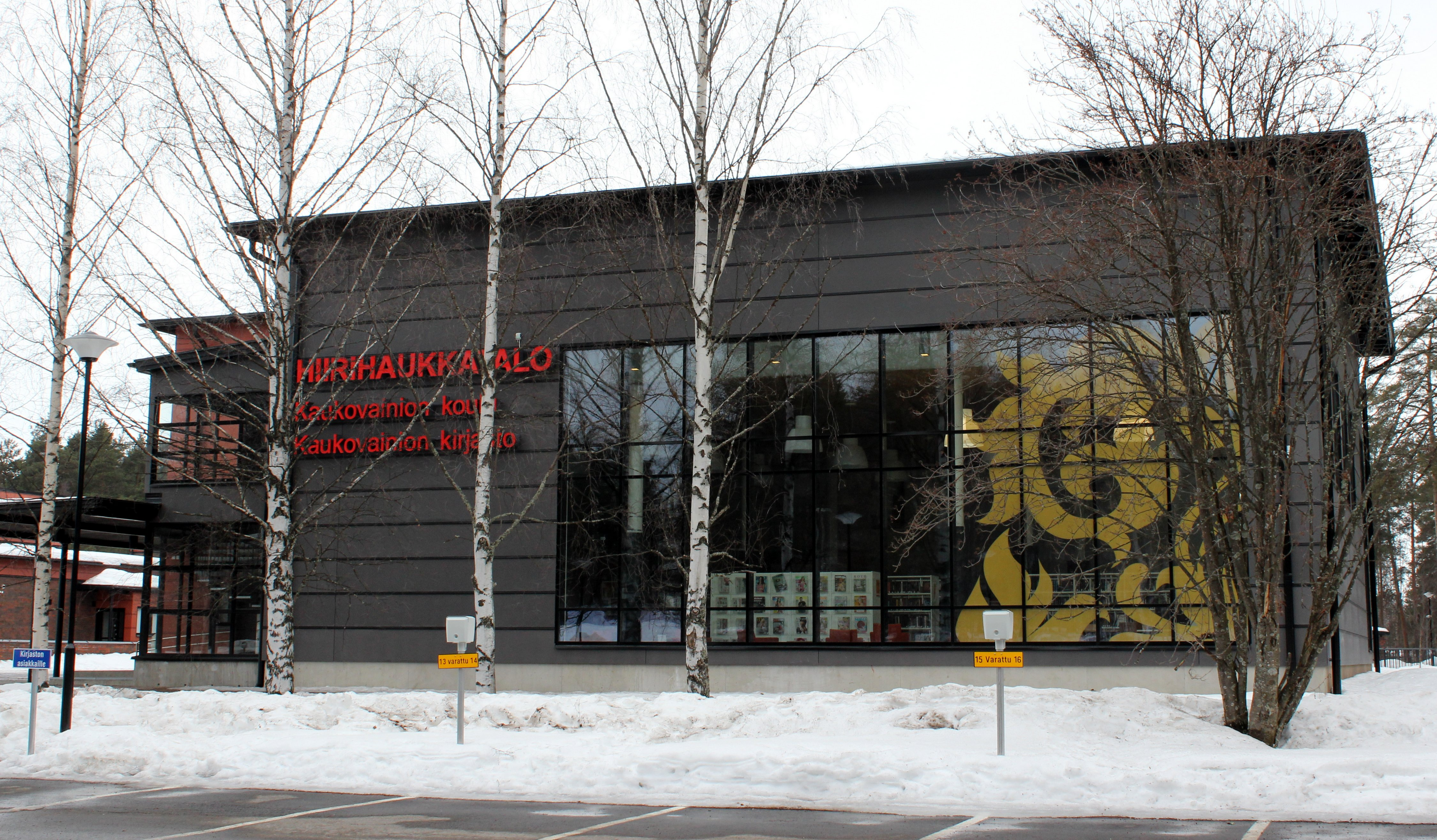 Hiirihaukkatalo is a community centre in Kaukovainio neighbourhood in Oulu.